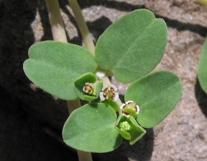 Euphorbia serpens (syn Chamaesyce serpens) — Matted sandmat; invasive plant species from South America. Taken in a disturbed habitat at Circle X Ranch Park — Santa Monica Mountains National Recreation Area, southern California. . NPS photo, no copyright.